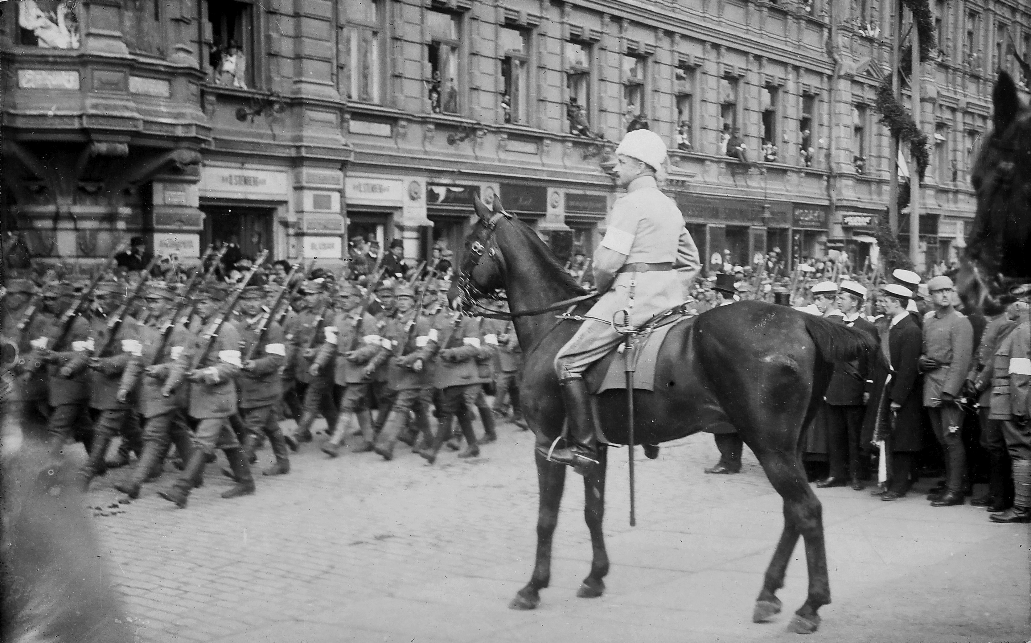 The victory parade of the White Army was received by General Mannerheim on 16 May 1918